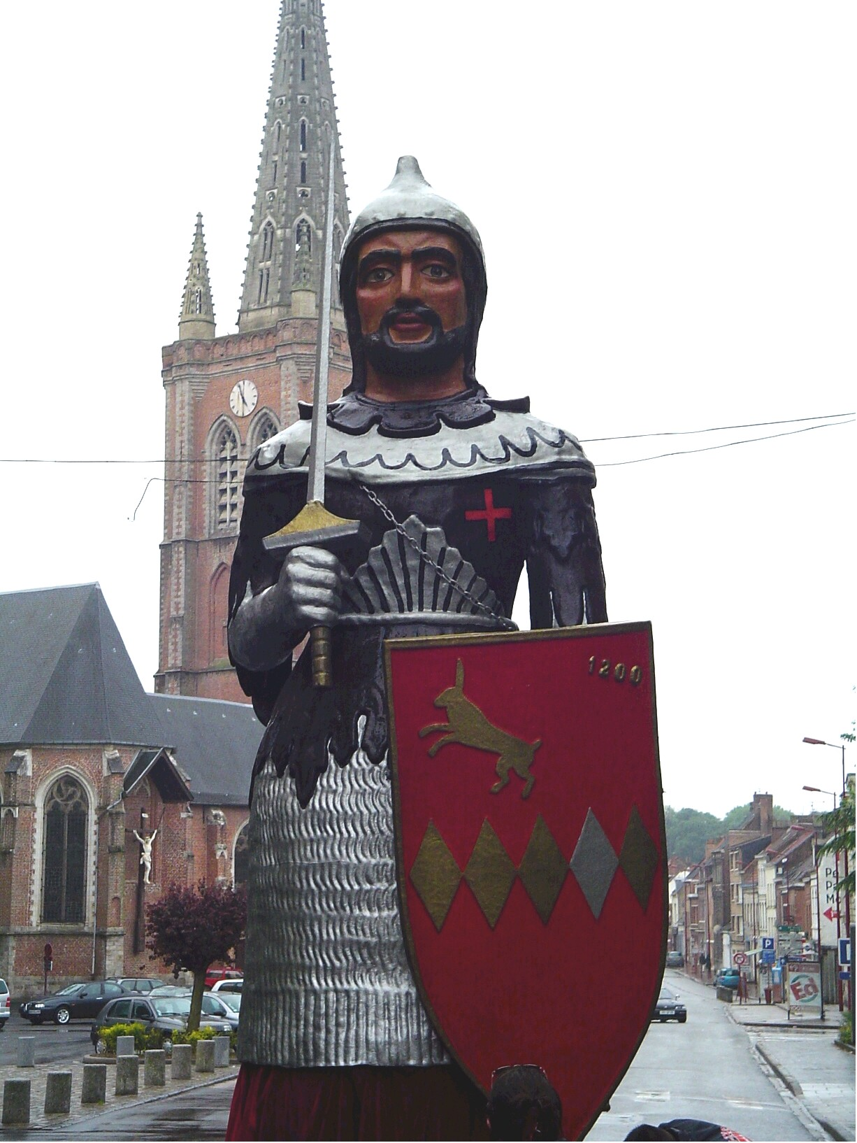 Roland a giant from Hazebrouck